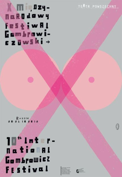 Festival international Gombrowicz de Radom